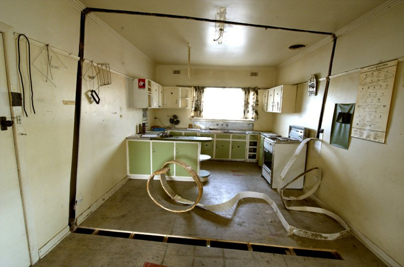 Site Specific artwork. The Upholsterer. Depot exhibition. Grenda's Bus Depot. Dandenong, Vicoria.